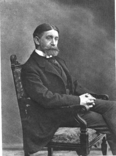 Isaac Newton Seligman 1902